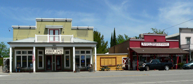 The finished work really makes for a wonderful visual impact; a bright spot so to speak, on the "downtown" of Santa Margarita - my little town.